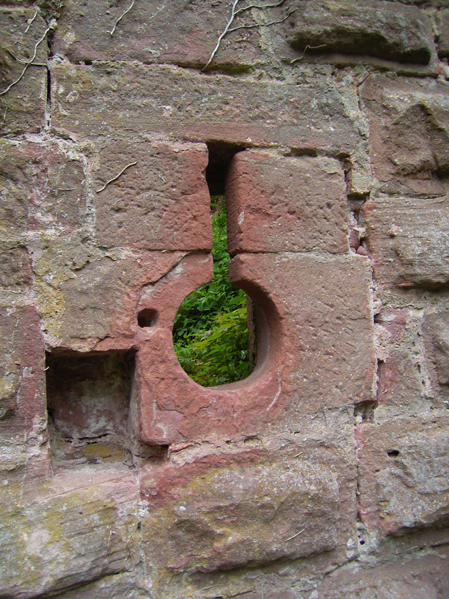 Balistraria next to the East entrance door of the castle of Girbaden, Bas-Rhin, France